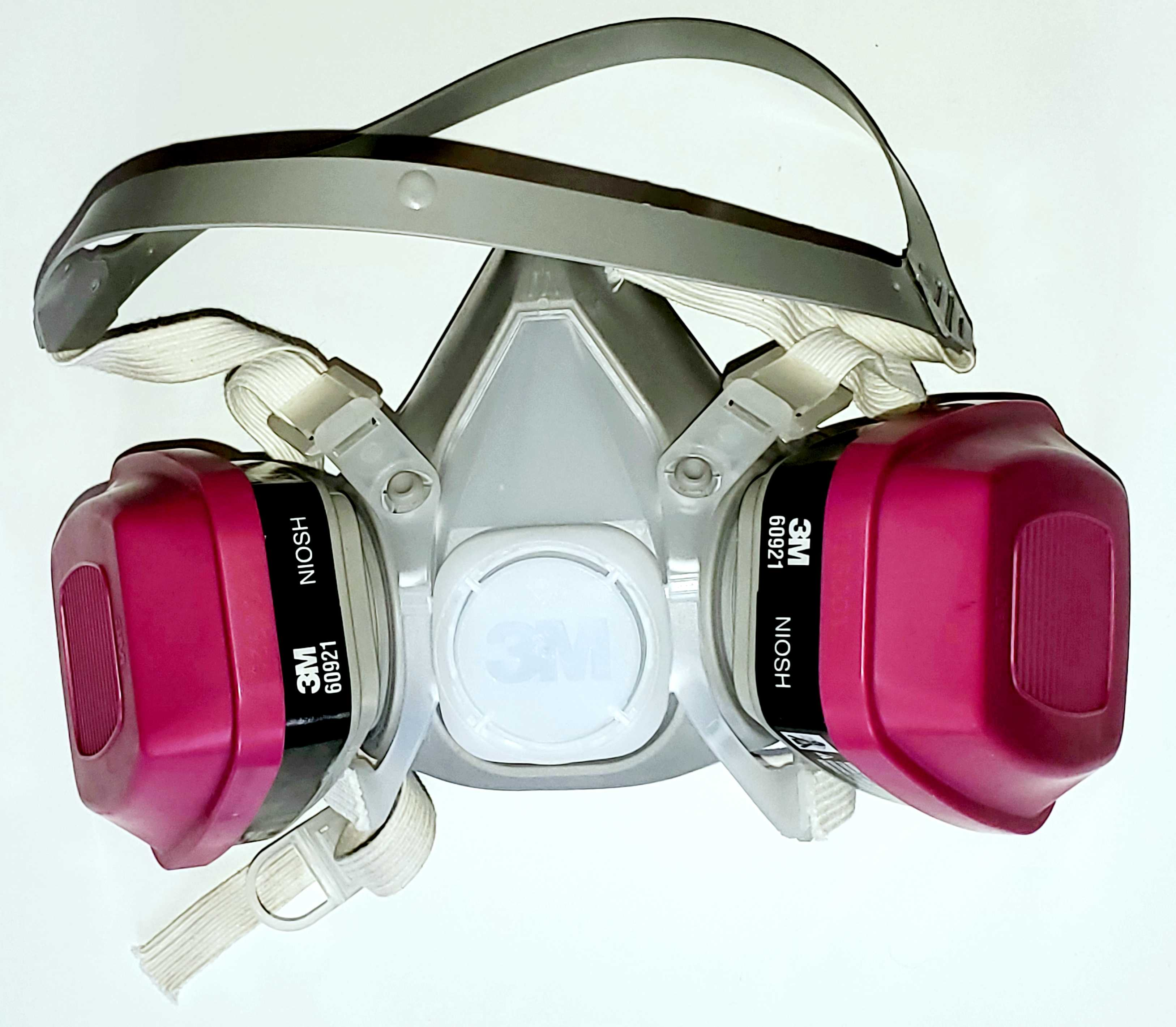 A half-face air-purifying respirator equipped with a cartridge that contains both a P-100 particulate filter and organic vapor (OV) filtering media. The respirator is attached to the wearer's face to provide purified air during activities where particulates and organic vapors are present.